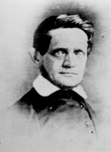 former Senator John Hemphill of Texas.